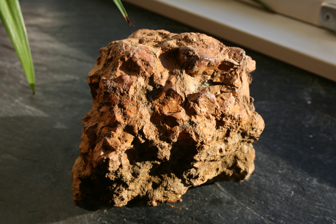 Bog iron